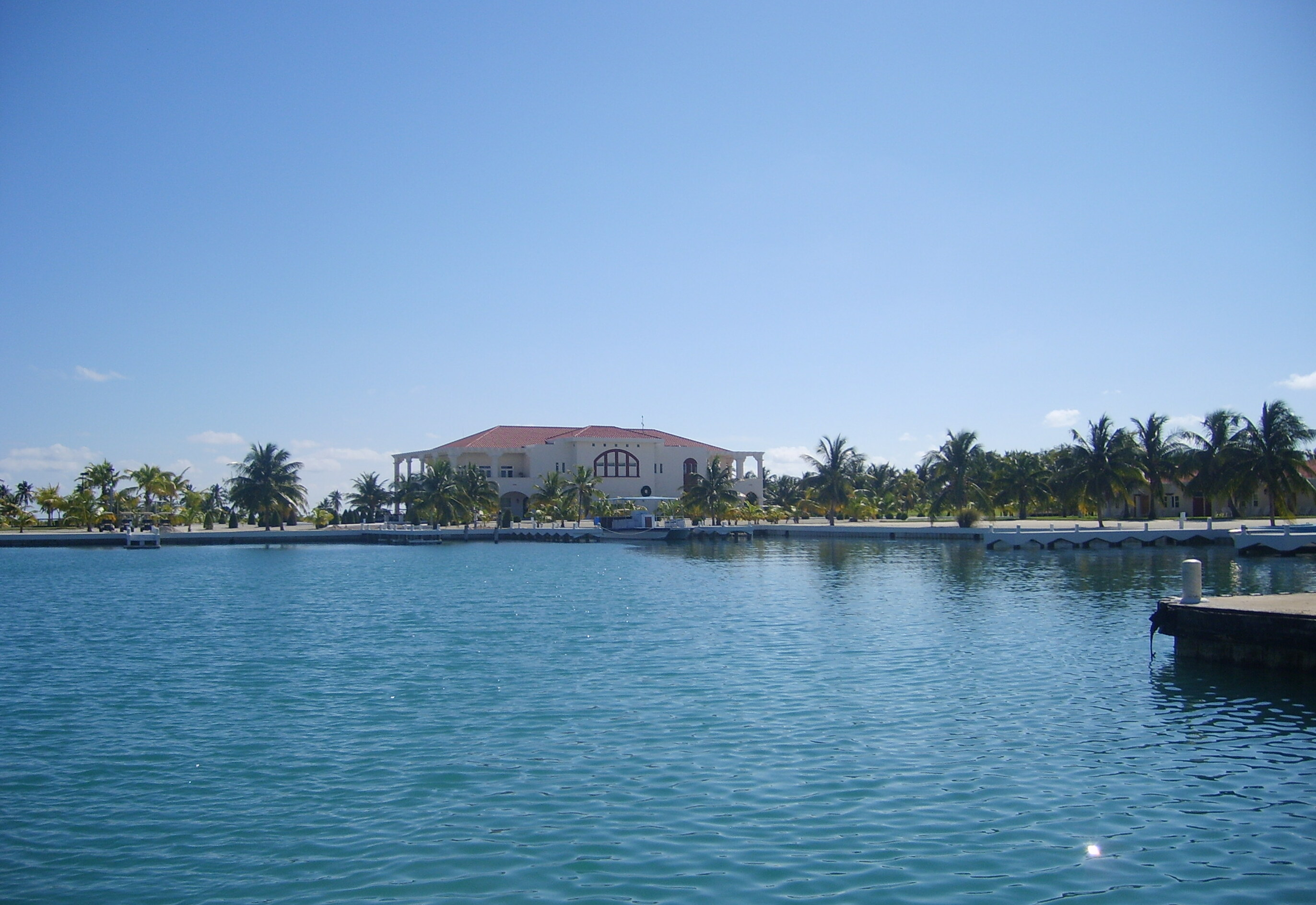 View of Caye Chapel from a ferry boat. Regular boats on the route (San Pedro -) Caye Caulker - Belize City make a detour to this island on request.